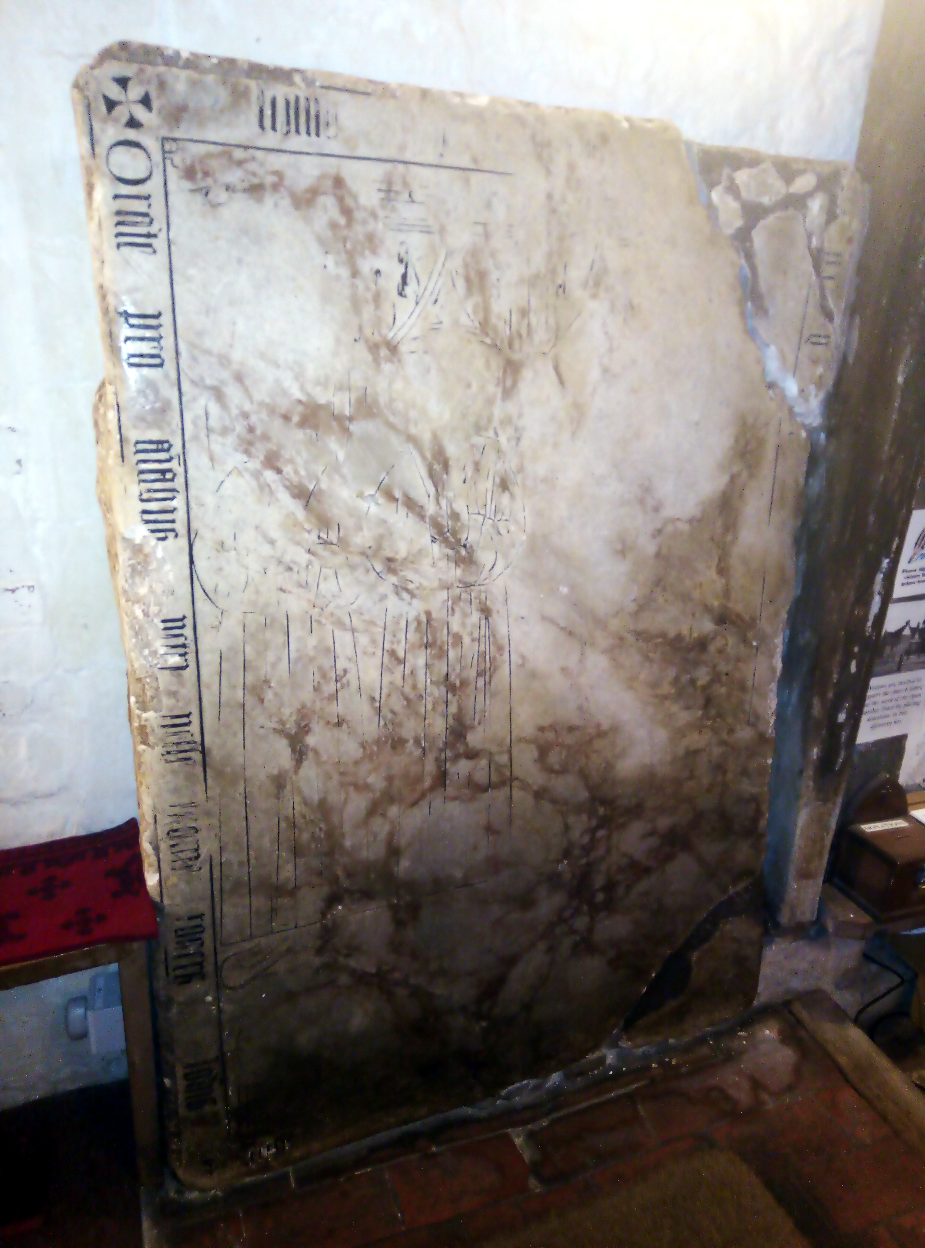 Alabaster tablet, asking prayers for two members of Ness family of Dale Abbey and one other man (name partly obscured), 1532. All Saints' Church, west wall.